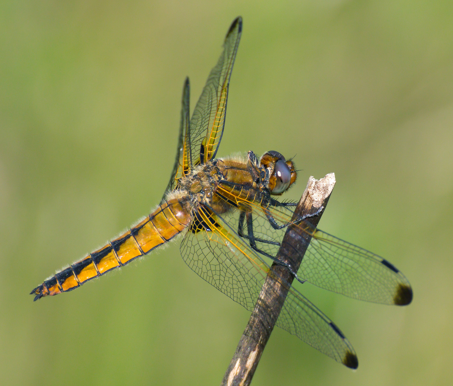 Younger female Scarce Chaser (Libellula fulva). Note the clearly visible spotting on the wing tips of this dragonfly.